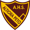 Auckland House School Logo